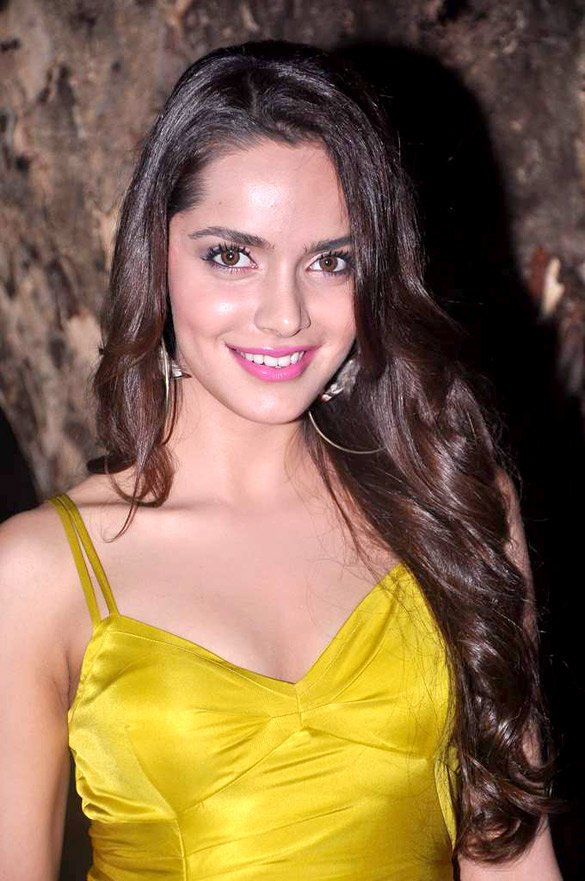 Shazahn Padamsee at Nokia APP party